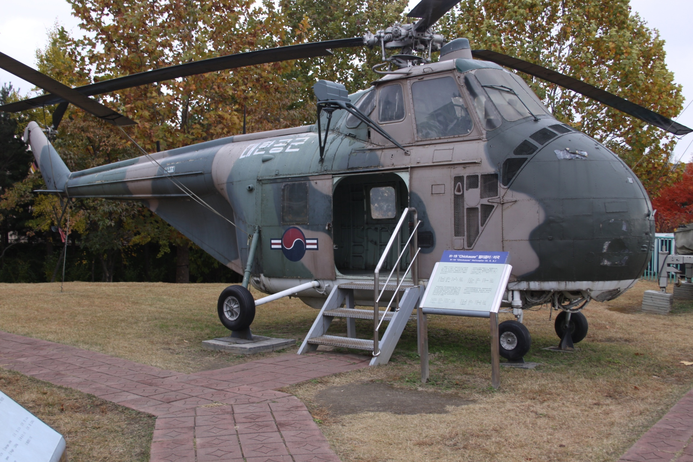 At War Memorial Museum - Seoul - Republic of Korea